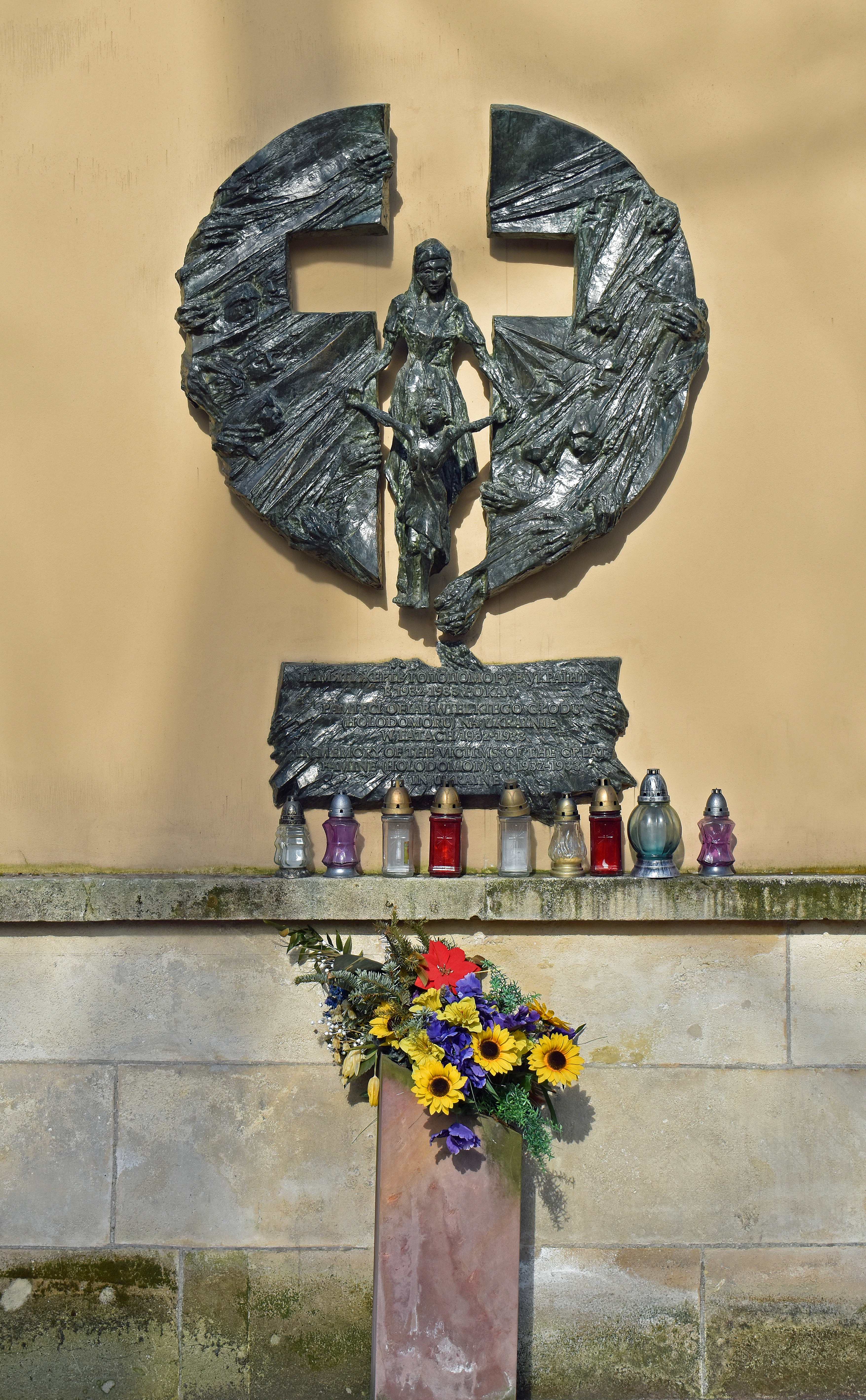 Memorial of Ukrainian Holodomor (Great Famine) 1932–1933, Planty Garden, Old Town, Krakow, Poland